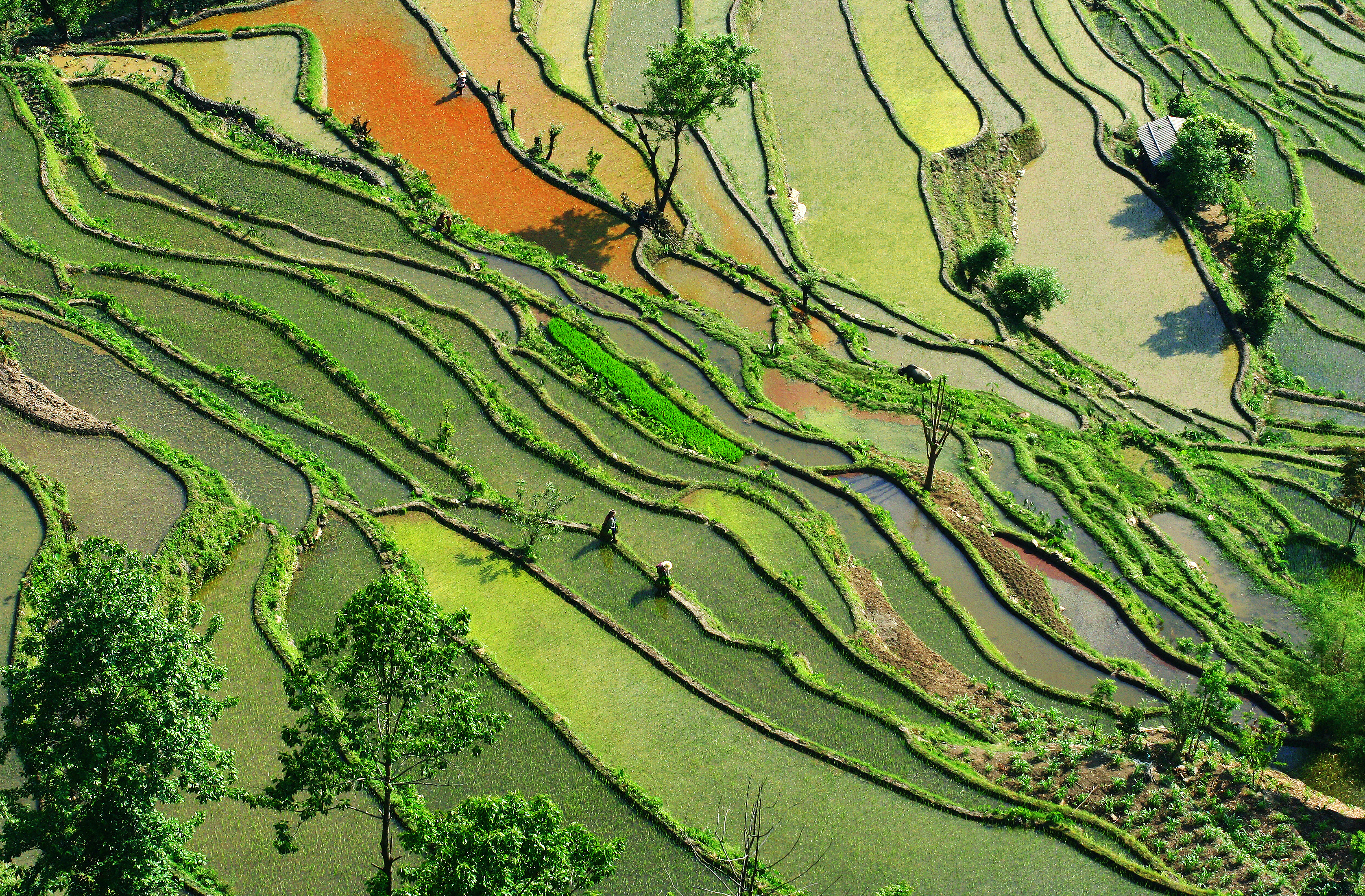 Subsistent farming in Yunnan Province, southern China